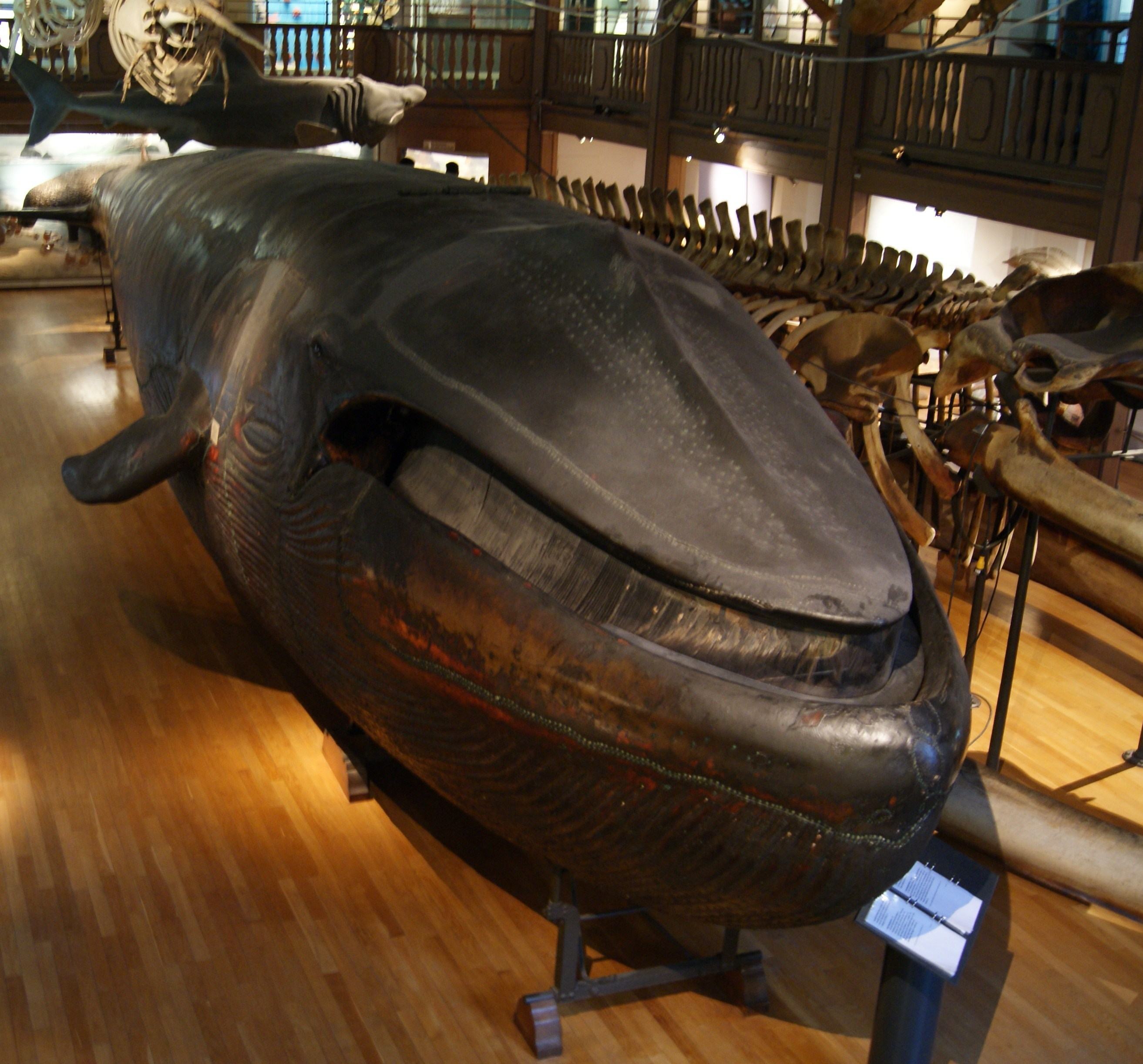 Skeleton and taxidermy preparation of a young male blue whale (Balaenoptera musculus) as on display at the 'Göteborg Natural History Museum', Sweden.